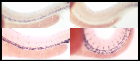 In situ hybrizations of genes expressed in arteries (top row) and veins (bottom row) in zebrafish. Left images are normal animals and right images are in a mutant of the Notch gene. Found on the web at